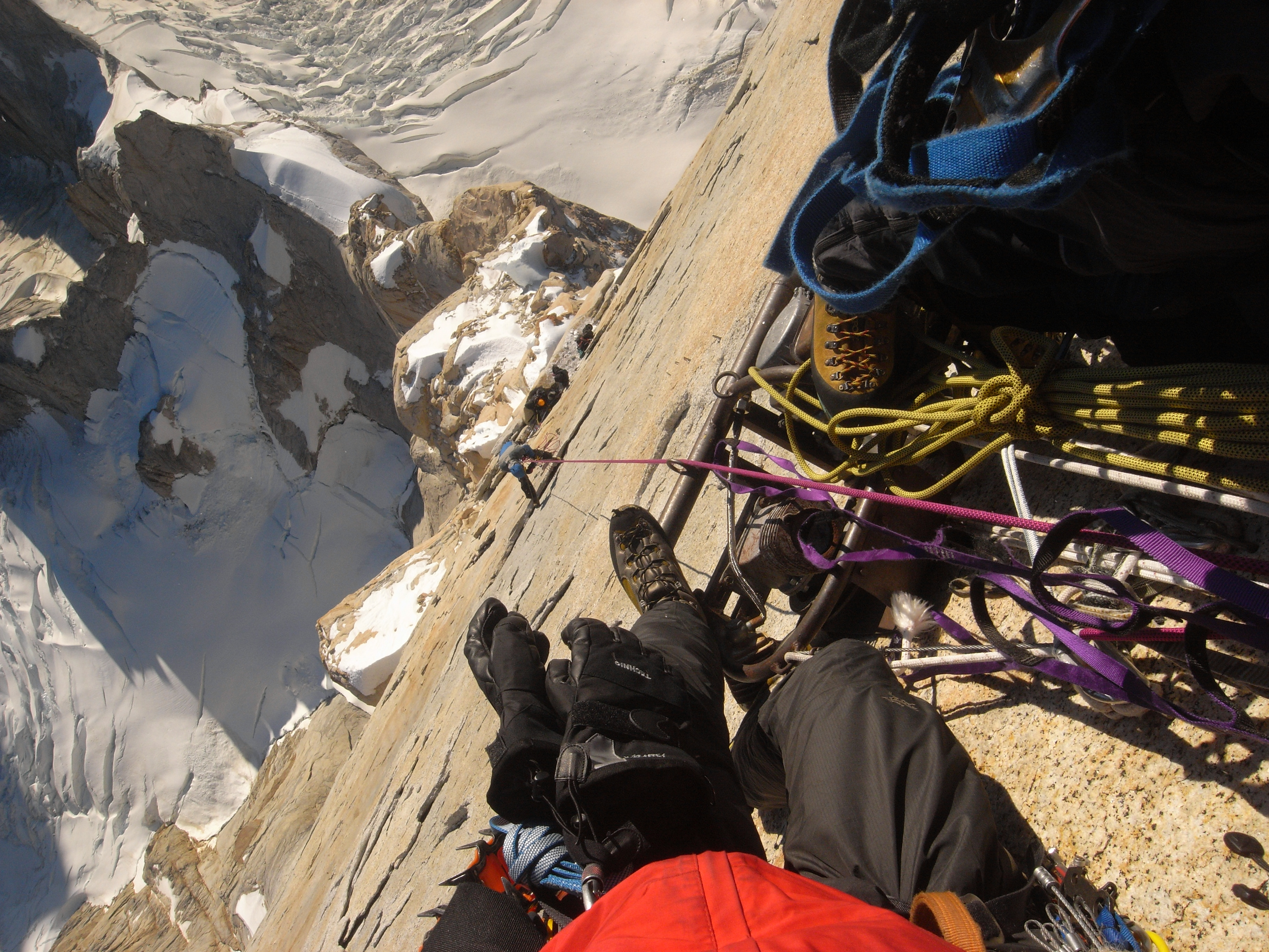 The Compressor on Cerro Torre. Photo by: Kristoffer Szilas.